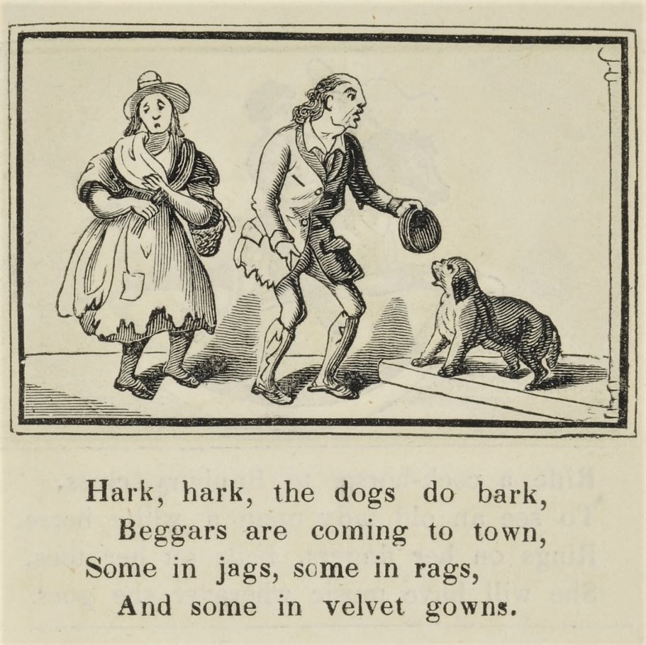 Nursery rhyme with illustration. Exact publication date not known, but known to have been not later than 1857. ( .)